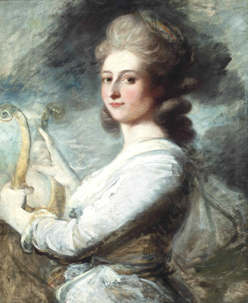 Portrait of Signora Sestini by Ozias Humphry